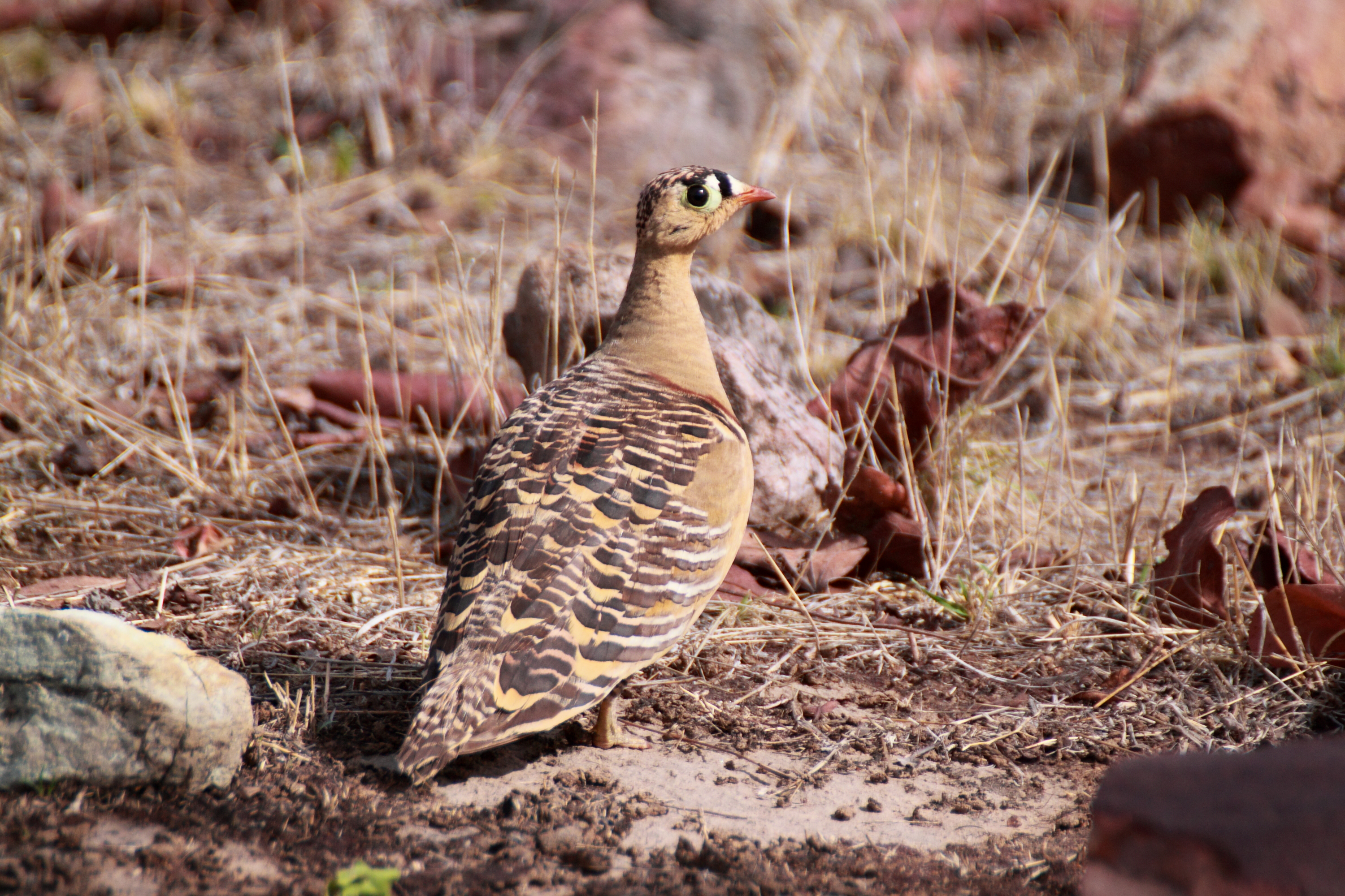 Painted sandgrouse (Pterocles indicus), male